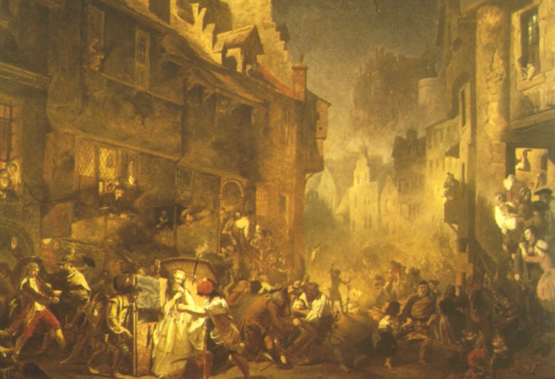 James Drummond The Porteous Mob 1855